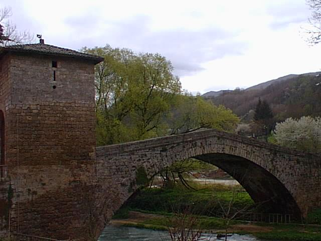 The medieval Ponte di San Francesco, Subiaco, Lazio, Italy